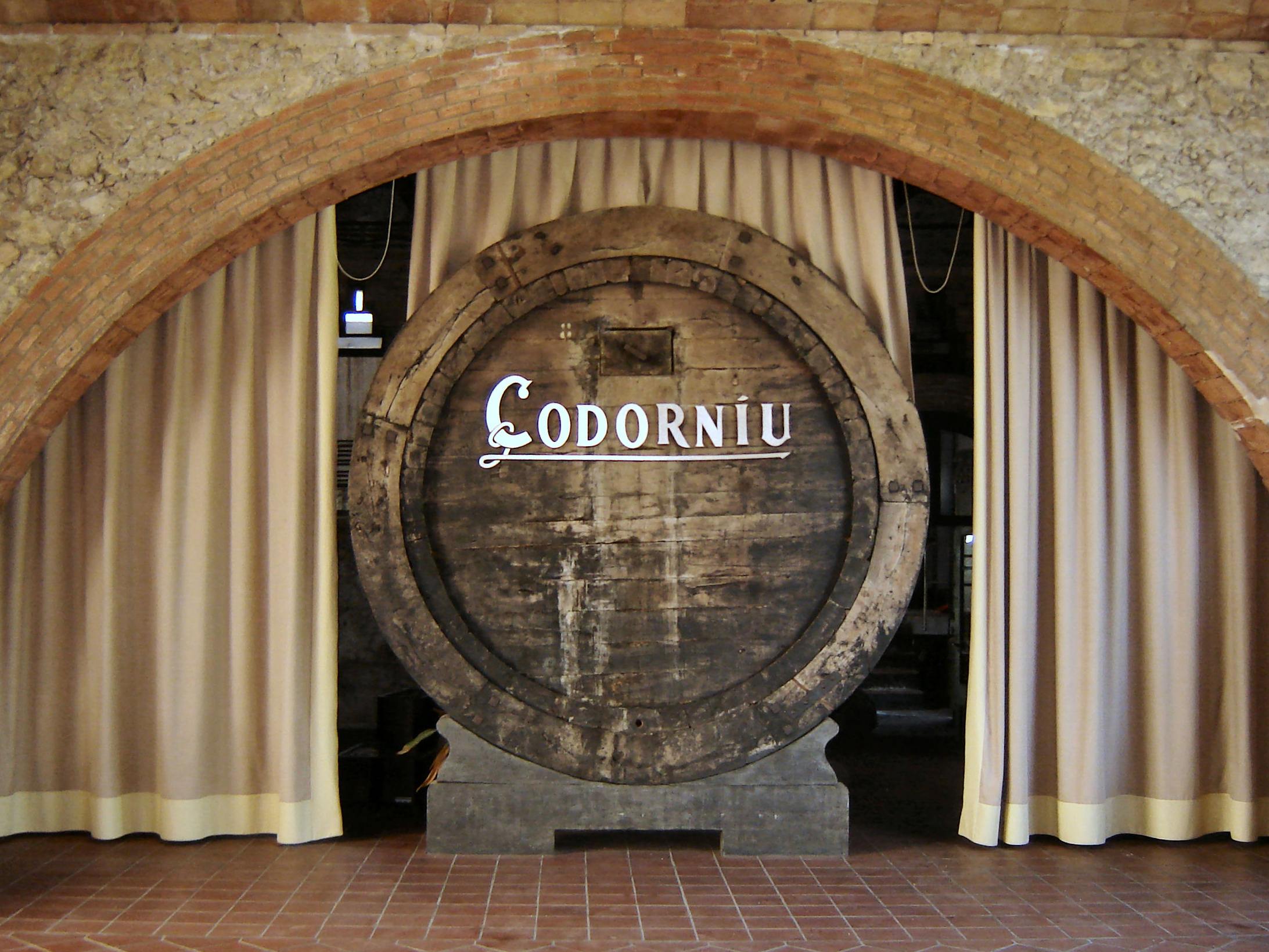 Museum of the Codorníu caves on the domains of Codorníu. Sant Sadurní d'Anoia, comarca Alt Penedès, province of Barcelona, Catalonia, Spain.